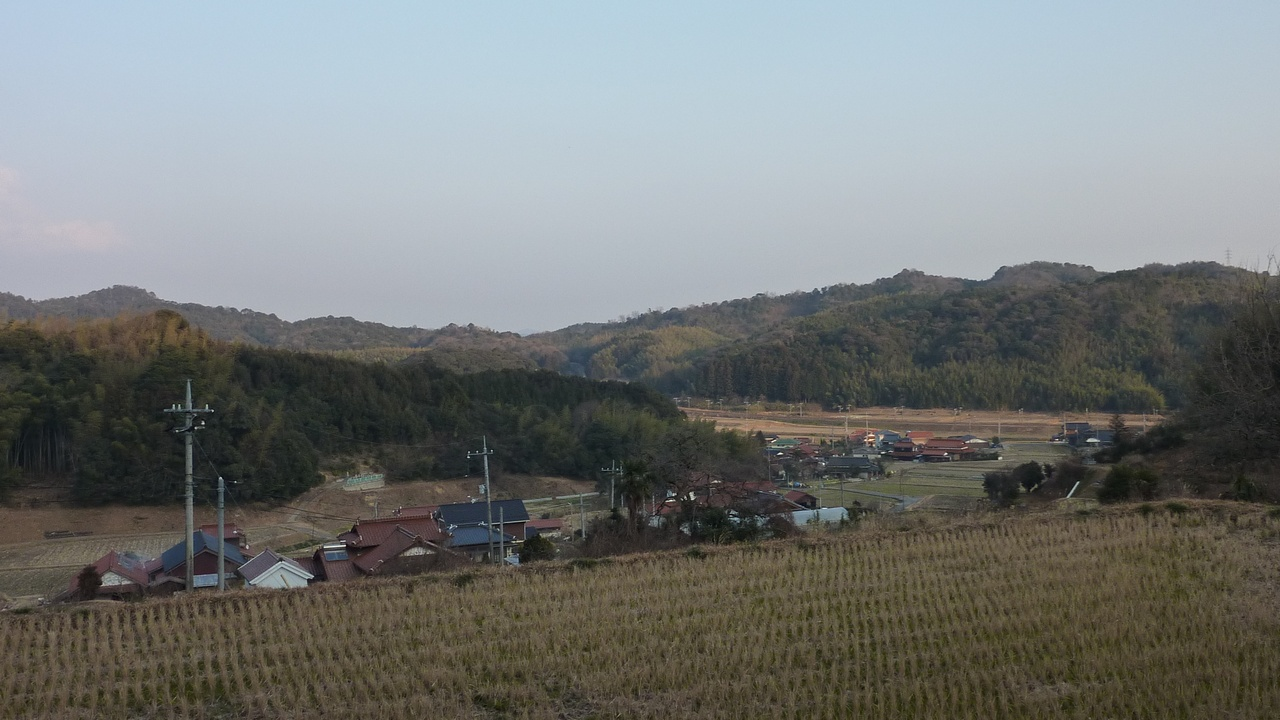 Fukuda, Sanyo-Onoda City, Yamaguchi Prefecture, Japan.